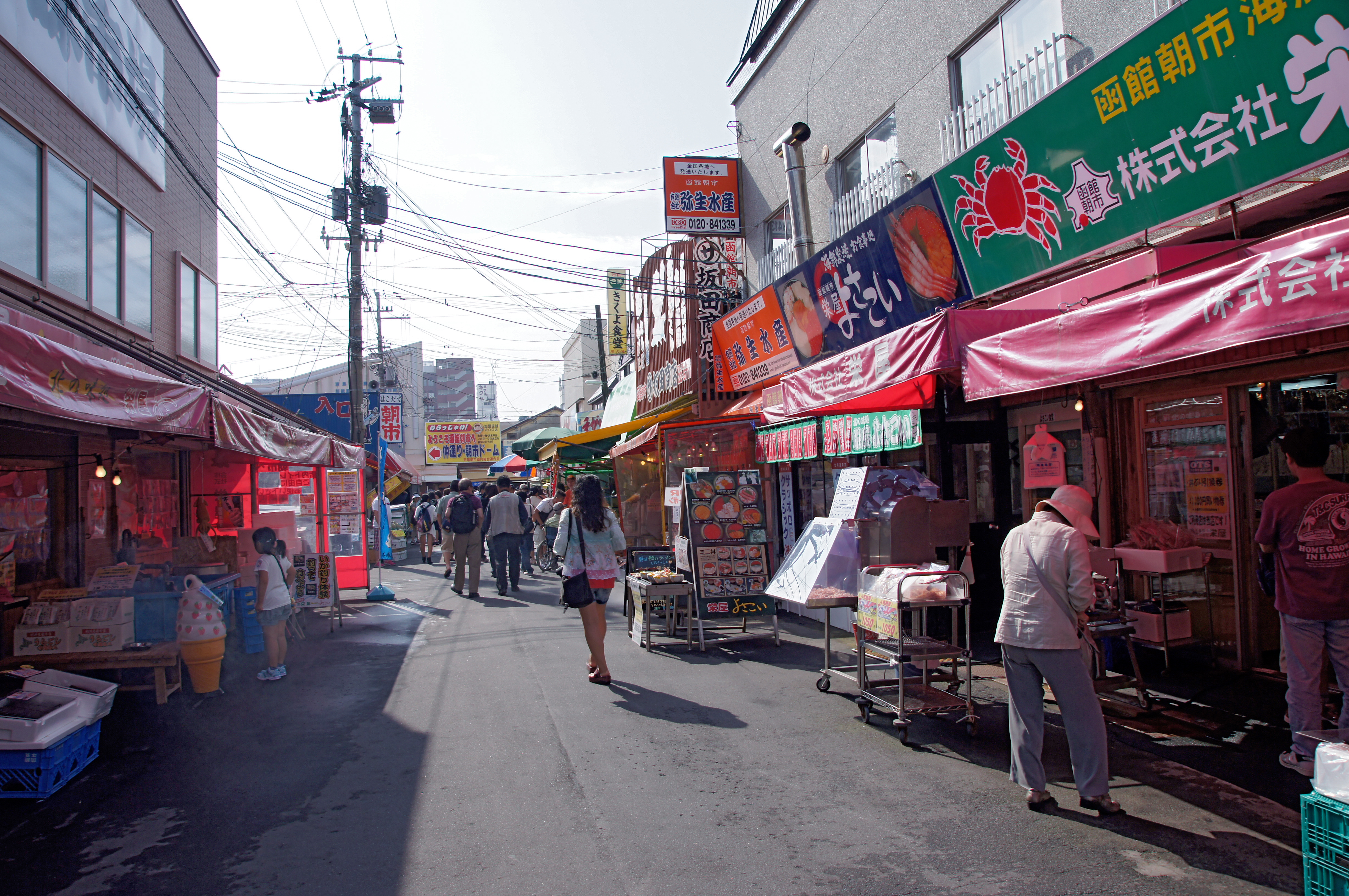 at Hakodate Asaichi in Hakodate, Hokkaido prefecture, Japan